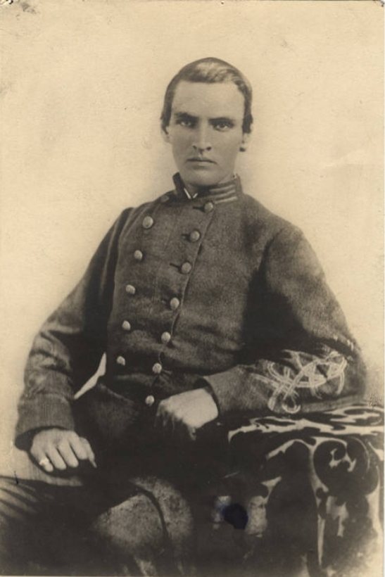 Capt. Reuben Vaughan Kidd, Company A, 4th Alabama Infantry, Alabama Department of Archives and History